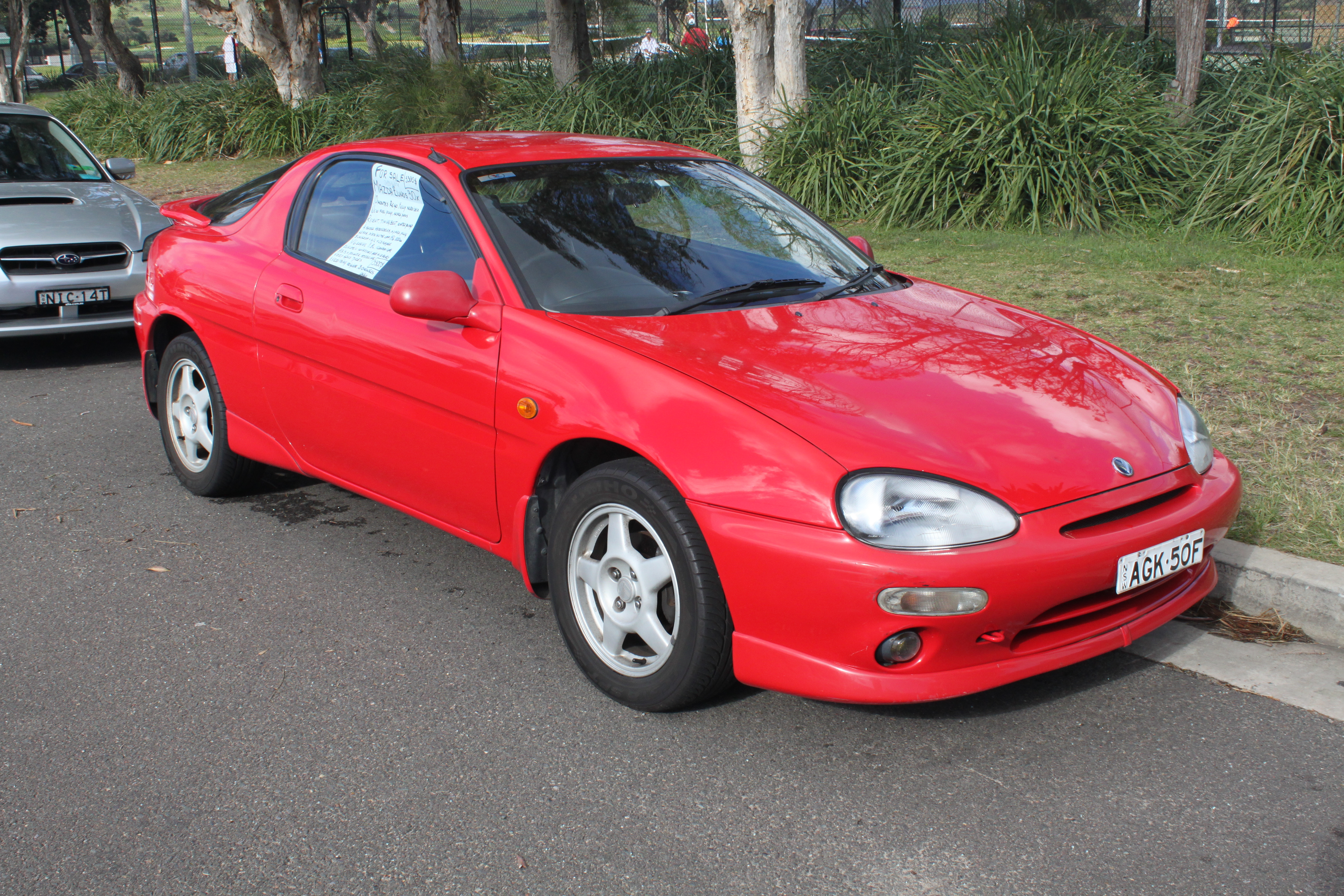 1994 Eunos 30X coupe. Photographed in New South Wales, Australia.